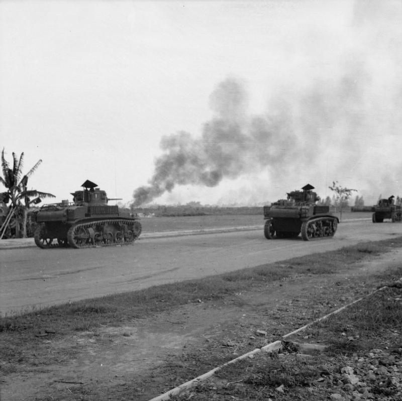 The British Occupation of Java Gun fire from British Stuart light tanks start fires in the railway marshalling yards at Surabaya (Soerabaja) during fighting with Indonesian nationalists.